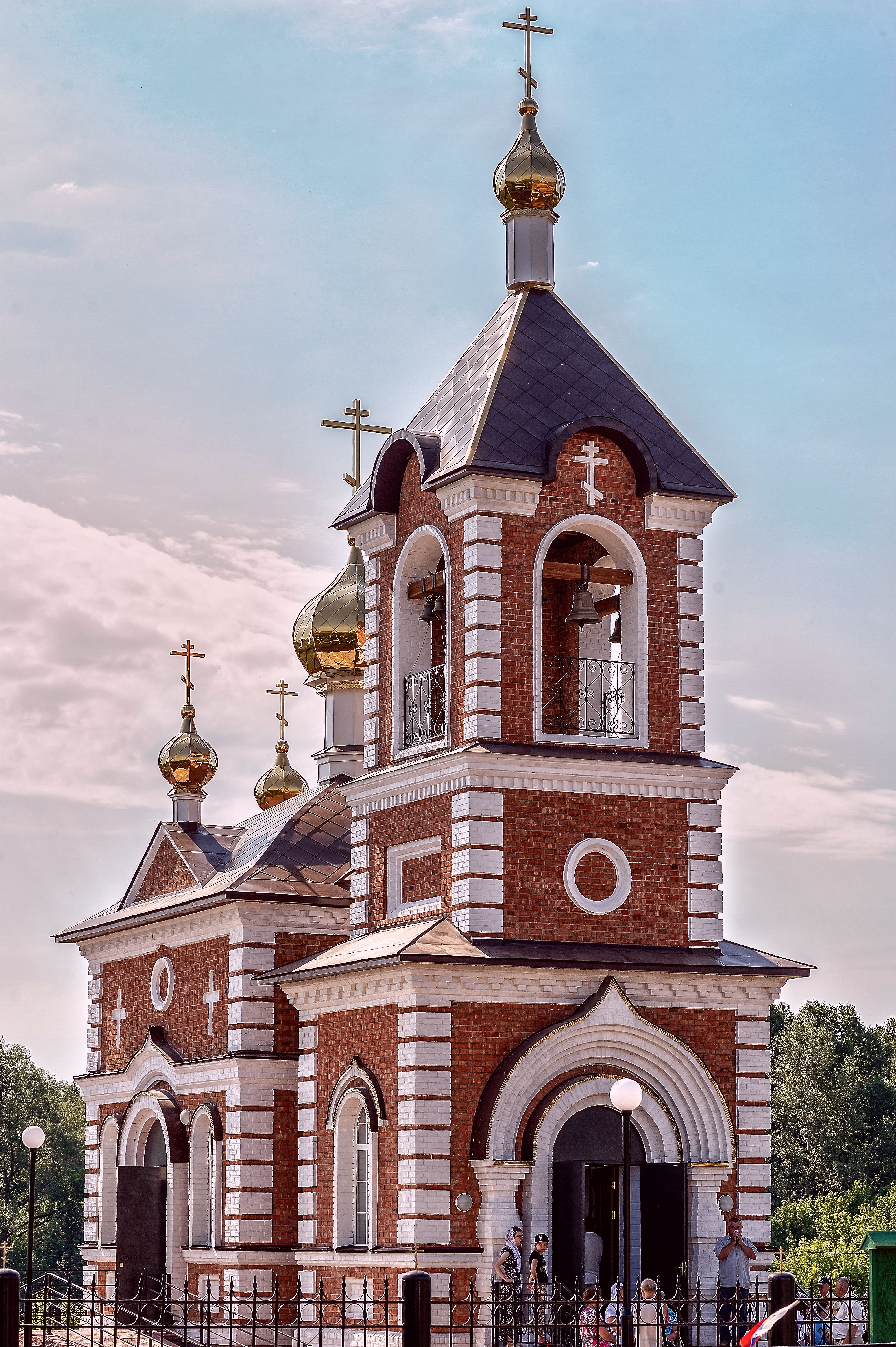 Храм Благовещения Божией Матери в с. Столяровка Мелеузовского района Республики Башкортостан.